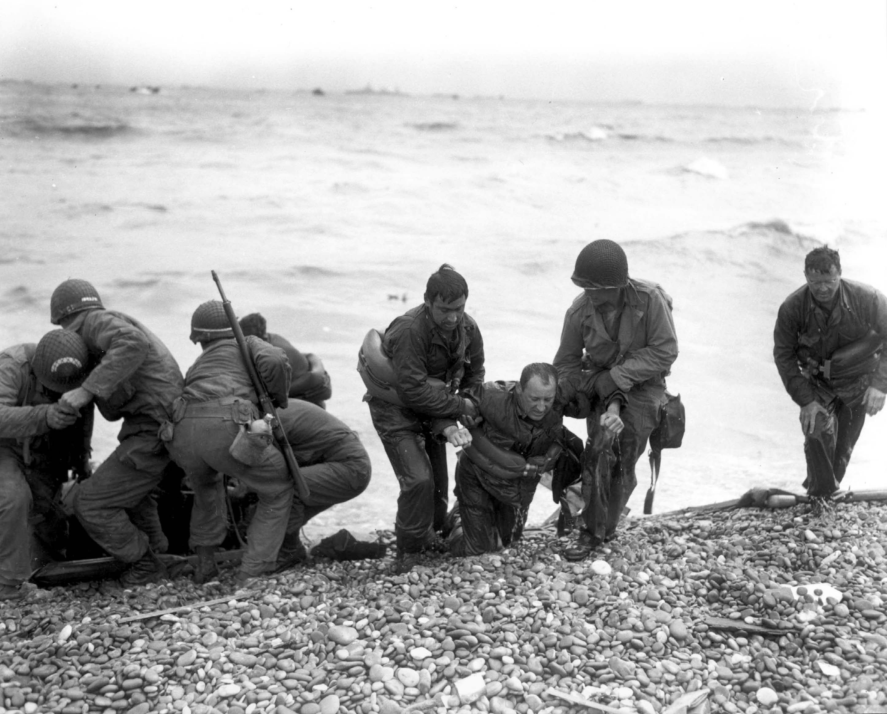 Members of a landing party help injured Soldiers to safety on Utah Beach during the Allied Invasion of Europe on D-Day, June 6, 1944